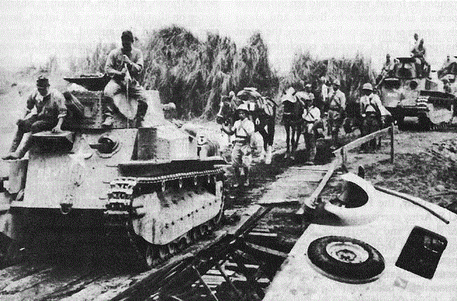 Japanese tank column advancing in Bataan